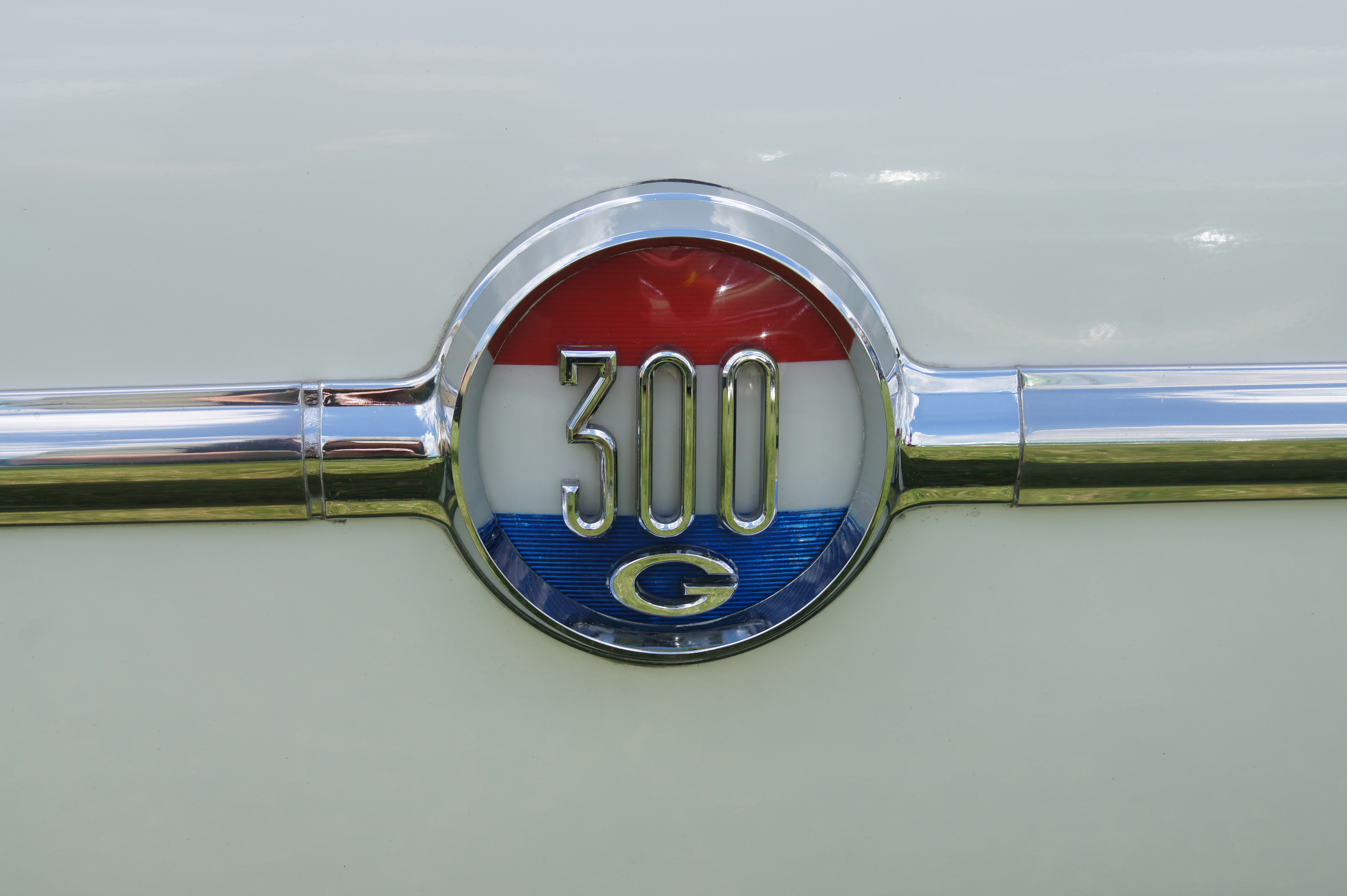 28th Annual Midwest Mopars in the Park June 2, 2012